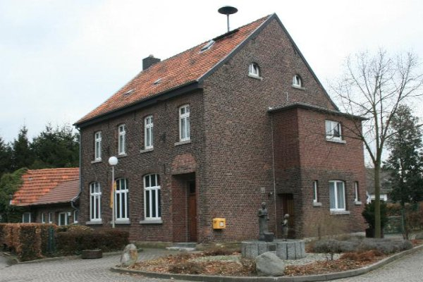 Cultural heritage monument No. 69 in Gangelt